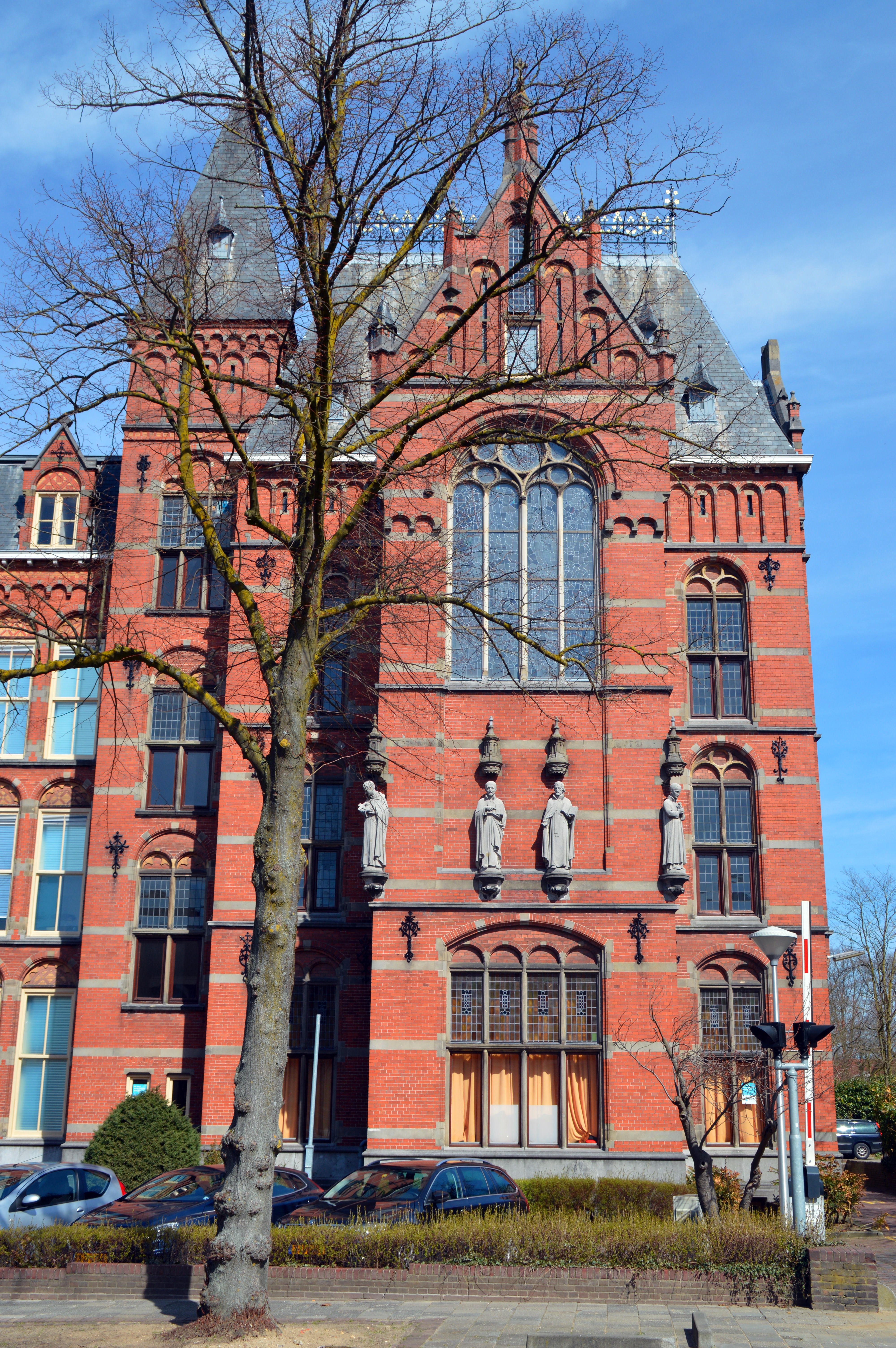 Canisius College (boarding school) Nijmegen Nicolaas Molenaar right side riussite national monument